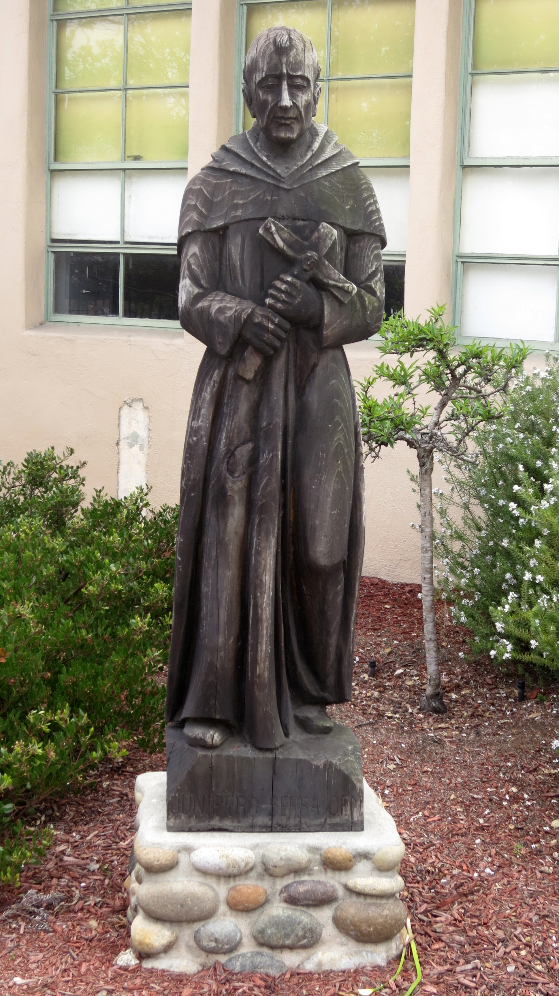 San Carlos Borromeo Cathedral (Monterey, CA) - exterior, statue of Blessed Junípero Serra